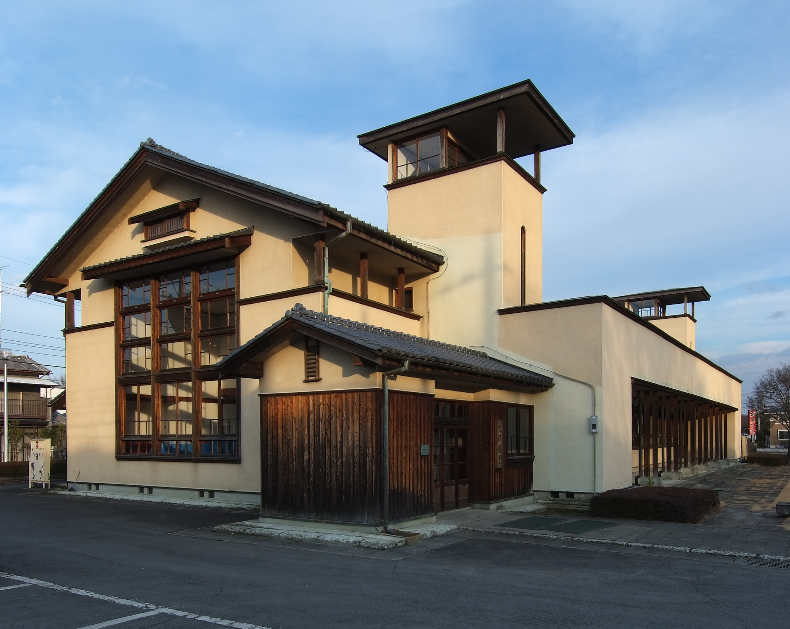 Kubo Auditorium of Mooka City, at Mooka Tochigi Japan, design by Arata Endo in 1938.